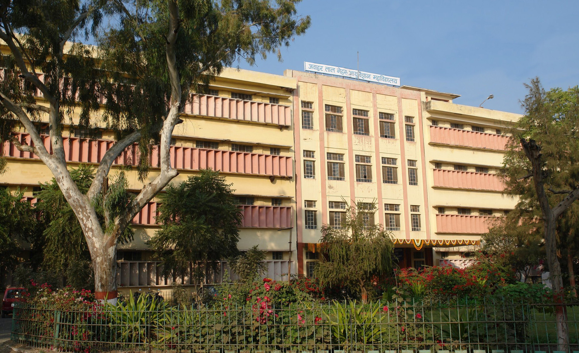 This media shows the front view of academic building of Jawaharlal Nehru Medical College, Ajmer